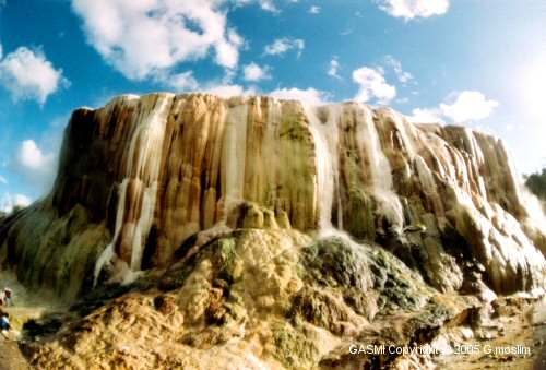 Photographer: GASMI.M. "Source: Own photograph by uploader"